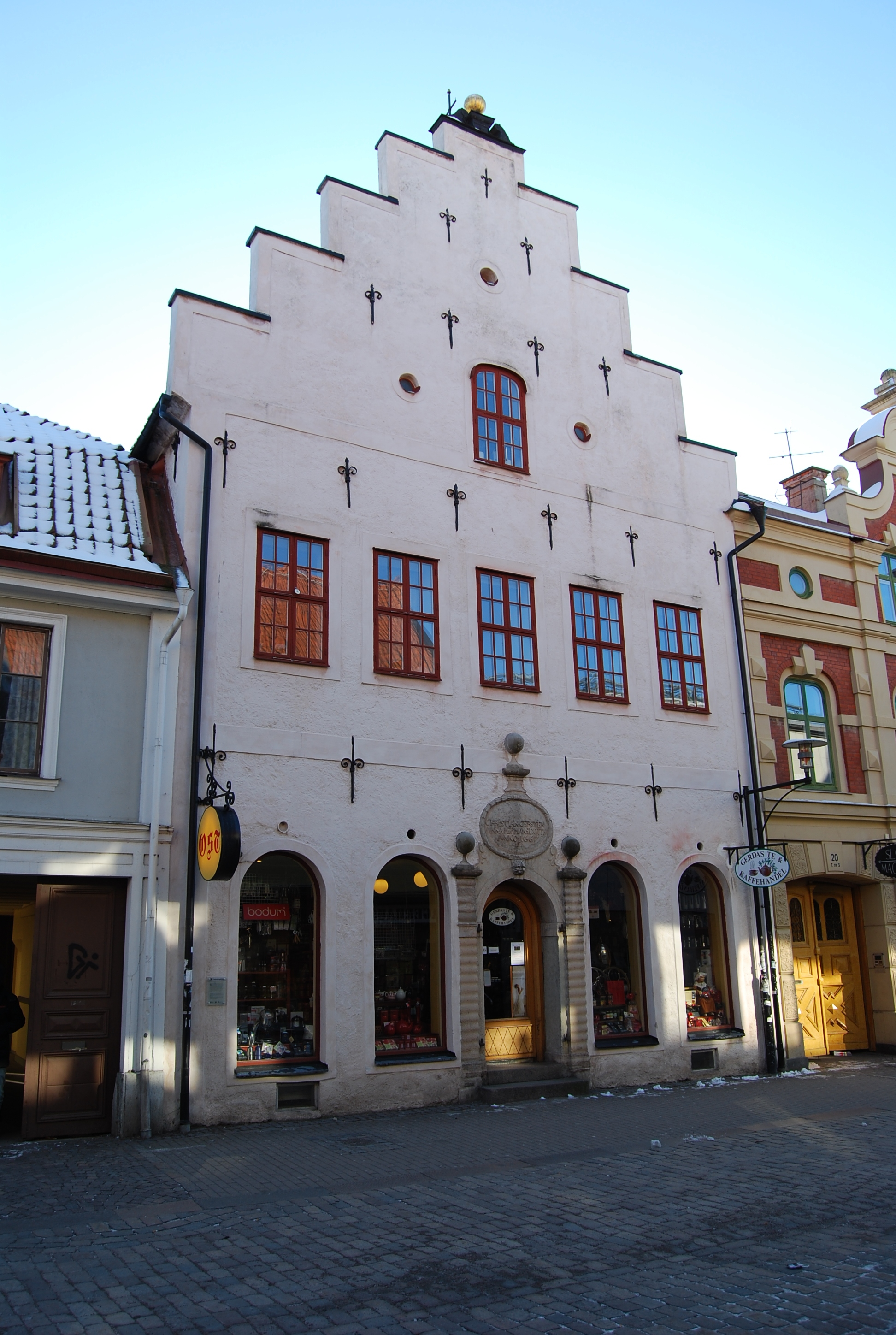 Castenska gården in Kalmar